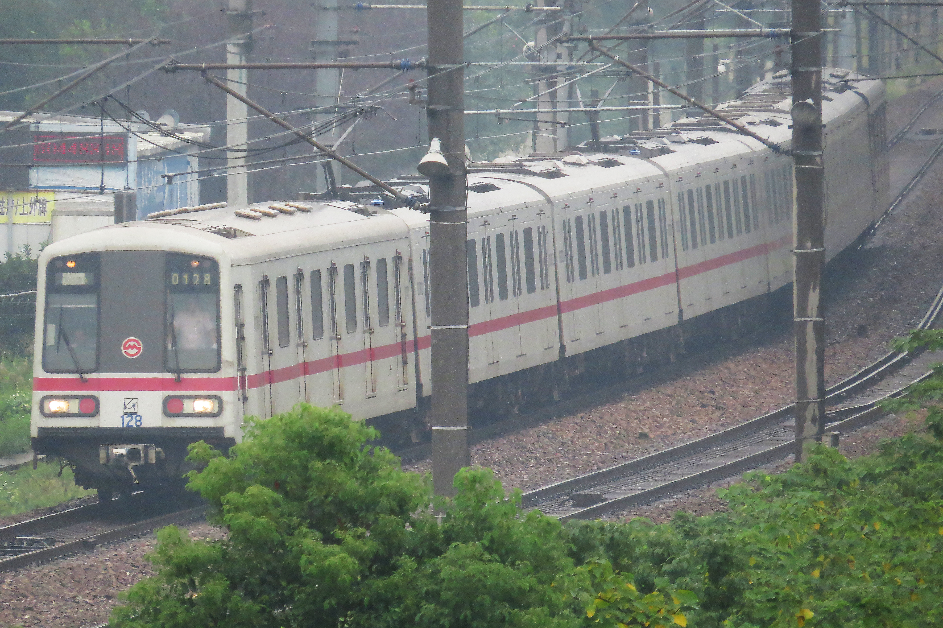 Another train is arriving...